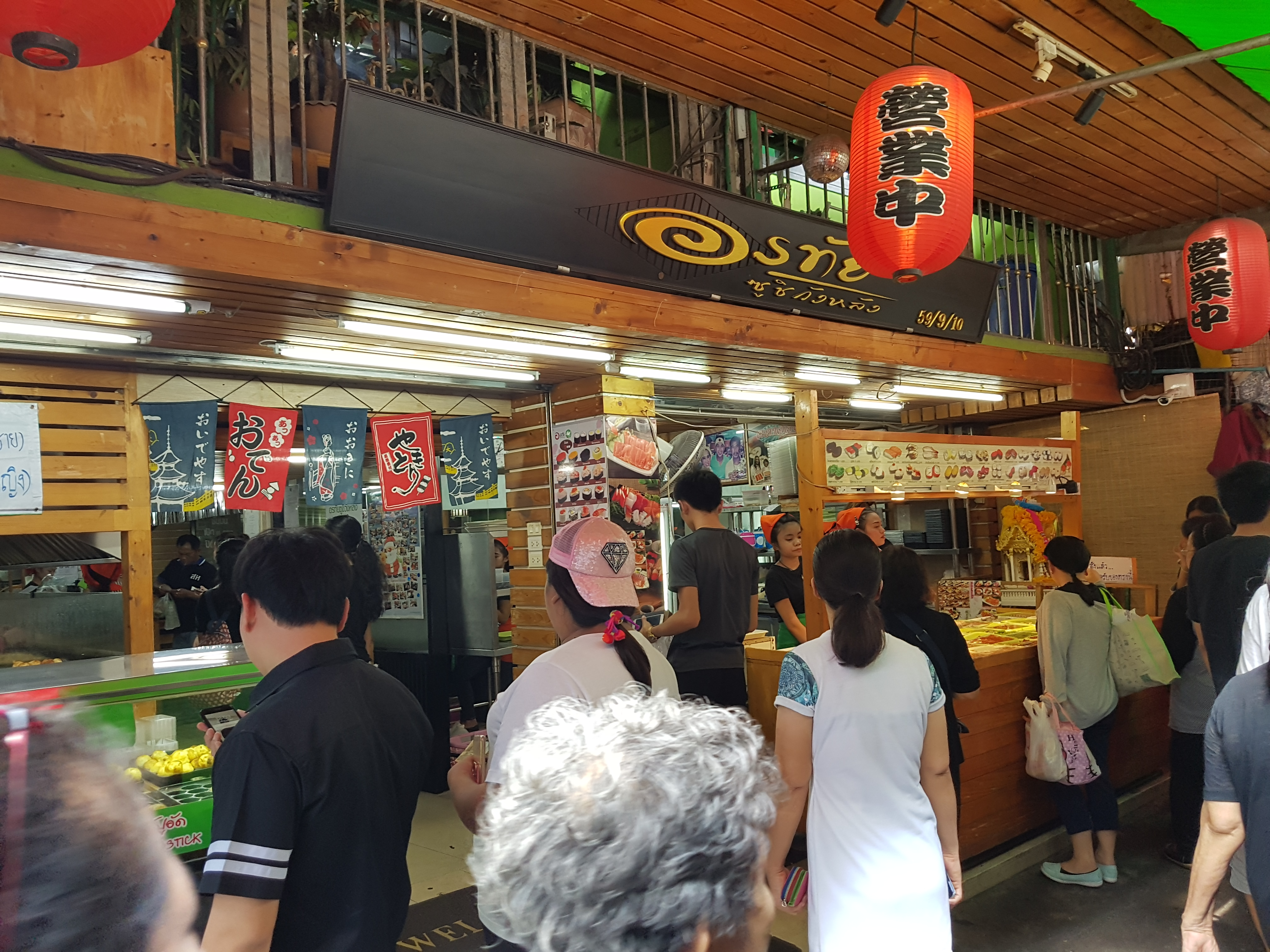 A popular sushi shop at Wang Lang (วังหลัง; "Rear Palace"), Bangkok, Thailand.